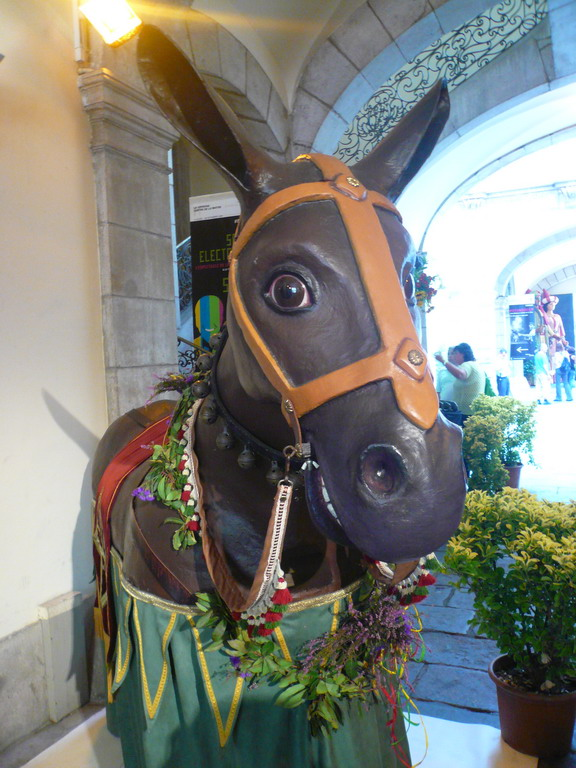 Mulassa (big Mule) of Barcelona